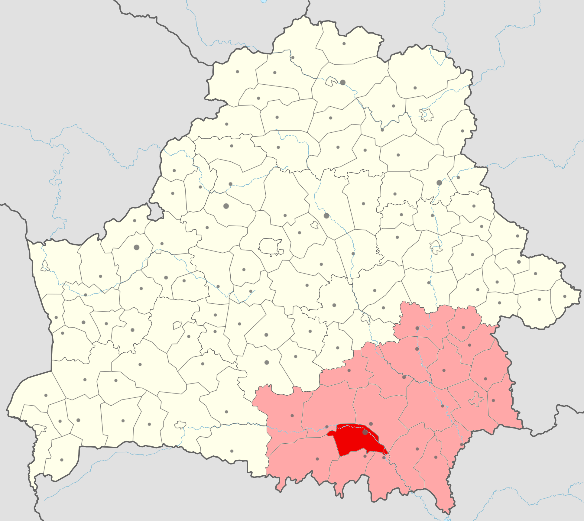 Location of Mazyrski rajon (red) in Homieĺskaja voblasć (light red) in Belarus.